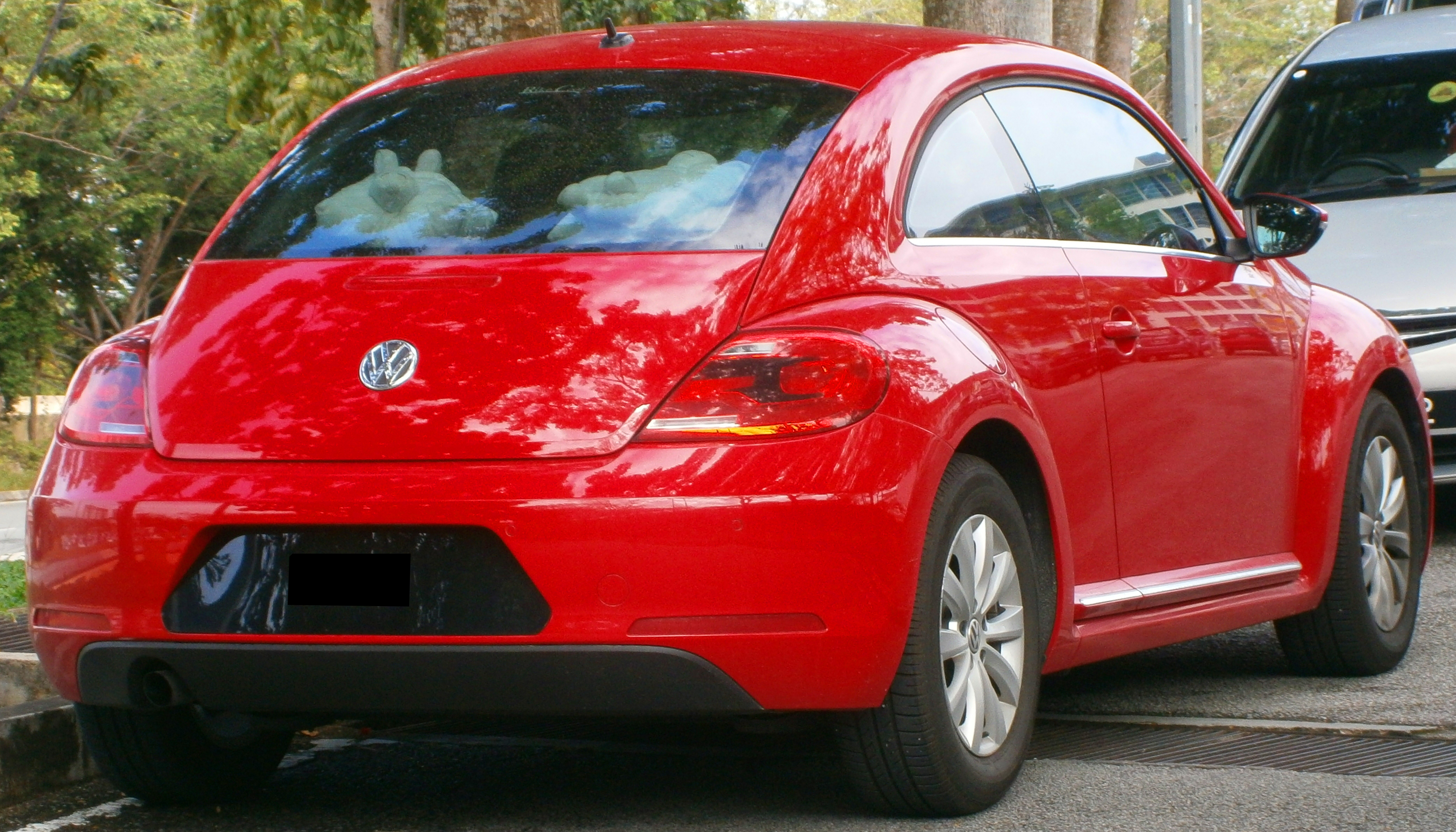 2012 Volkswagen Beetle 1.2 TSI in Cyberjaya, Malaysia.Colour : Tornado RedDesigned in Germany , Manufactured in Mexico